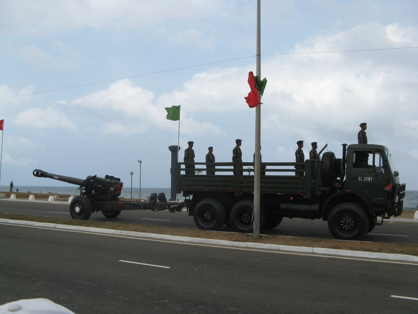 Artillery Unit - Sri Lanka Army